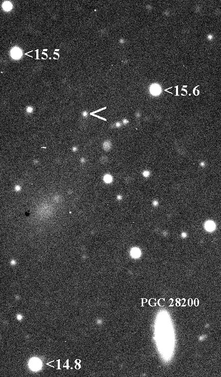 10 minute exposure of dwarf planet candidate Orcus with a 24" telescope. Orcus is about apparent magnitude 19.2 in this image taken at 2009-12-26 11:00 UT. The galaxy PGC 28200 is visible below Orcus.